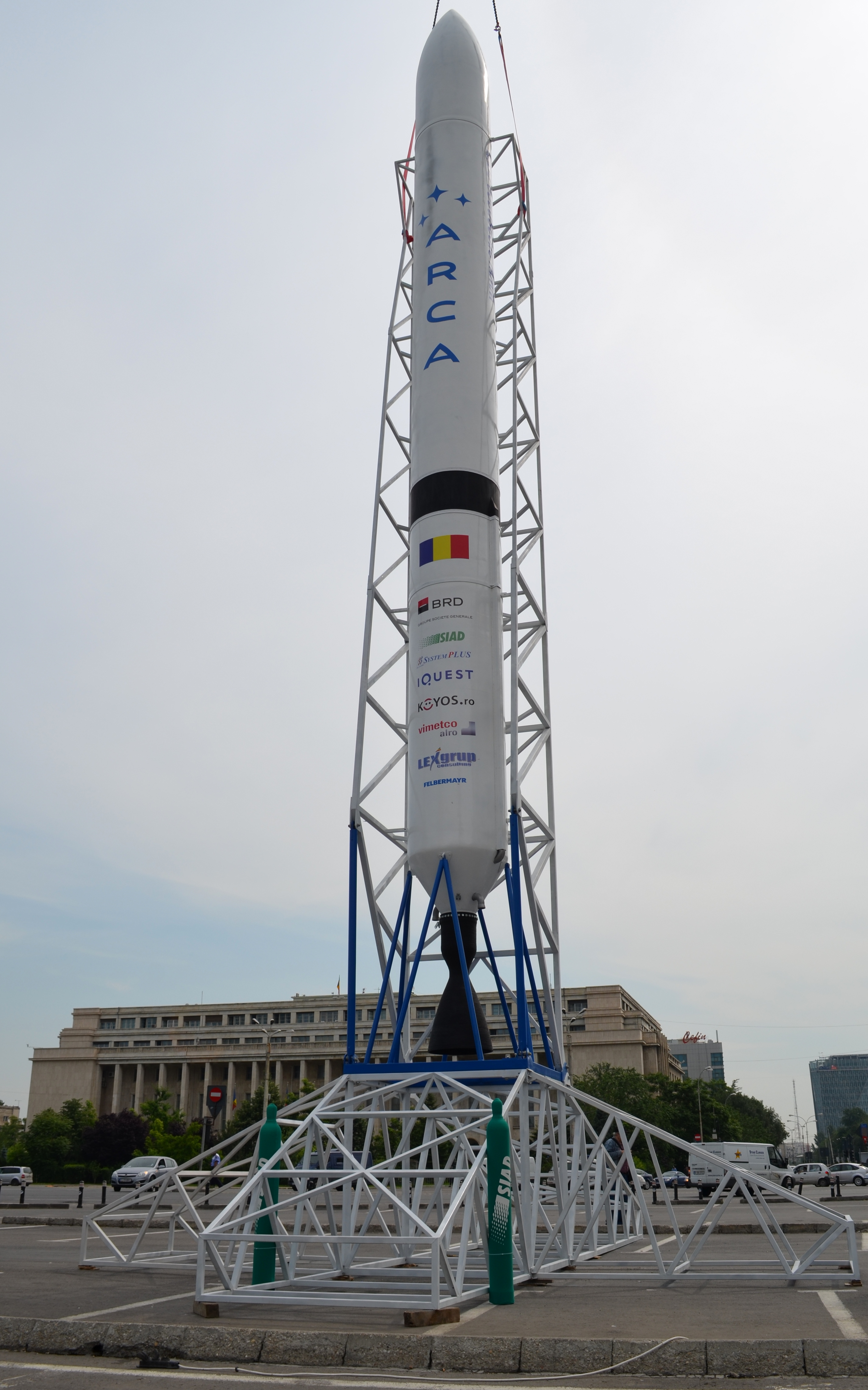 Haas 2c rocket, on display in Victory Square